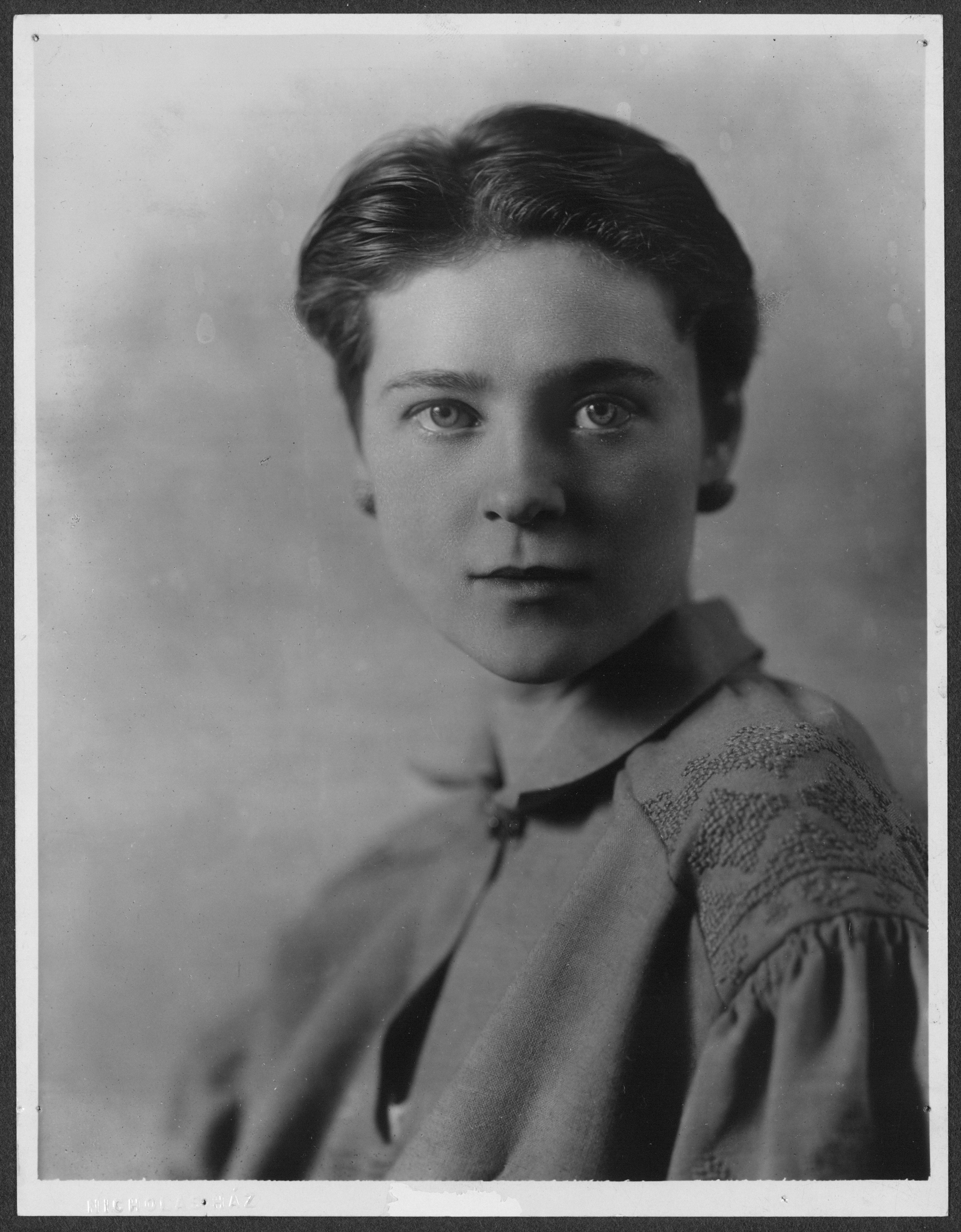 Eva Le Gallienne, Chrmn. - Actresses Council National Advisory Council - NWP Subject Headings National Woman's Party Suffragists--United States--1910-1920 Women--Suffrage--New York (N.Y.) Women's rights--United States Le Gallienne, Eva, 1899- Actors and Actresses Photographs United States -- New York -- New York